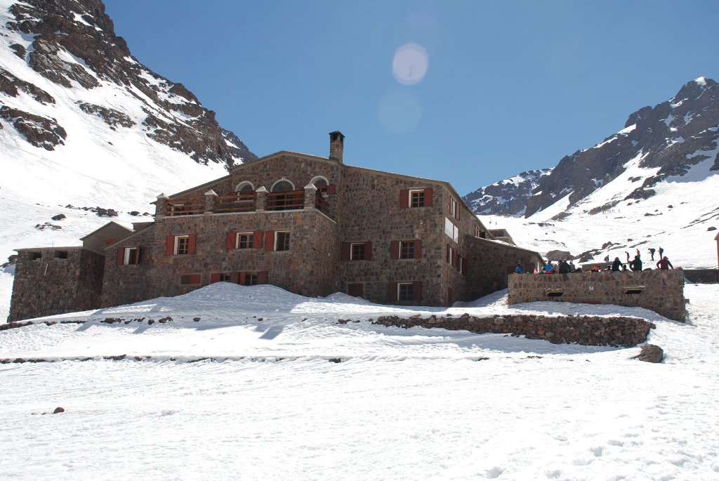 Refuge Toubkal Les Mouflons is situated at 3207m high, surrounded by 11 summits, the highest one is Toubkal 4167m.